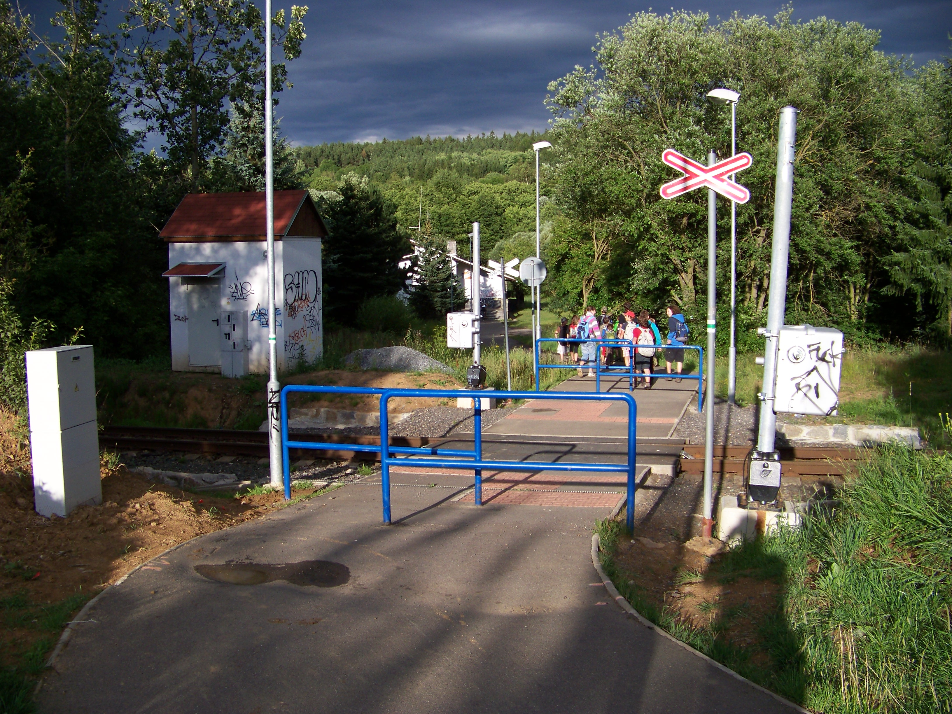 Příbram VIII, Příbram District, Central Bohemian Region, the Czech Republic. A pedestrian level crossing.